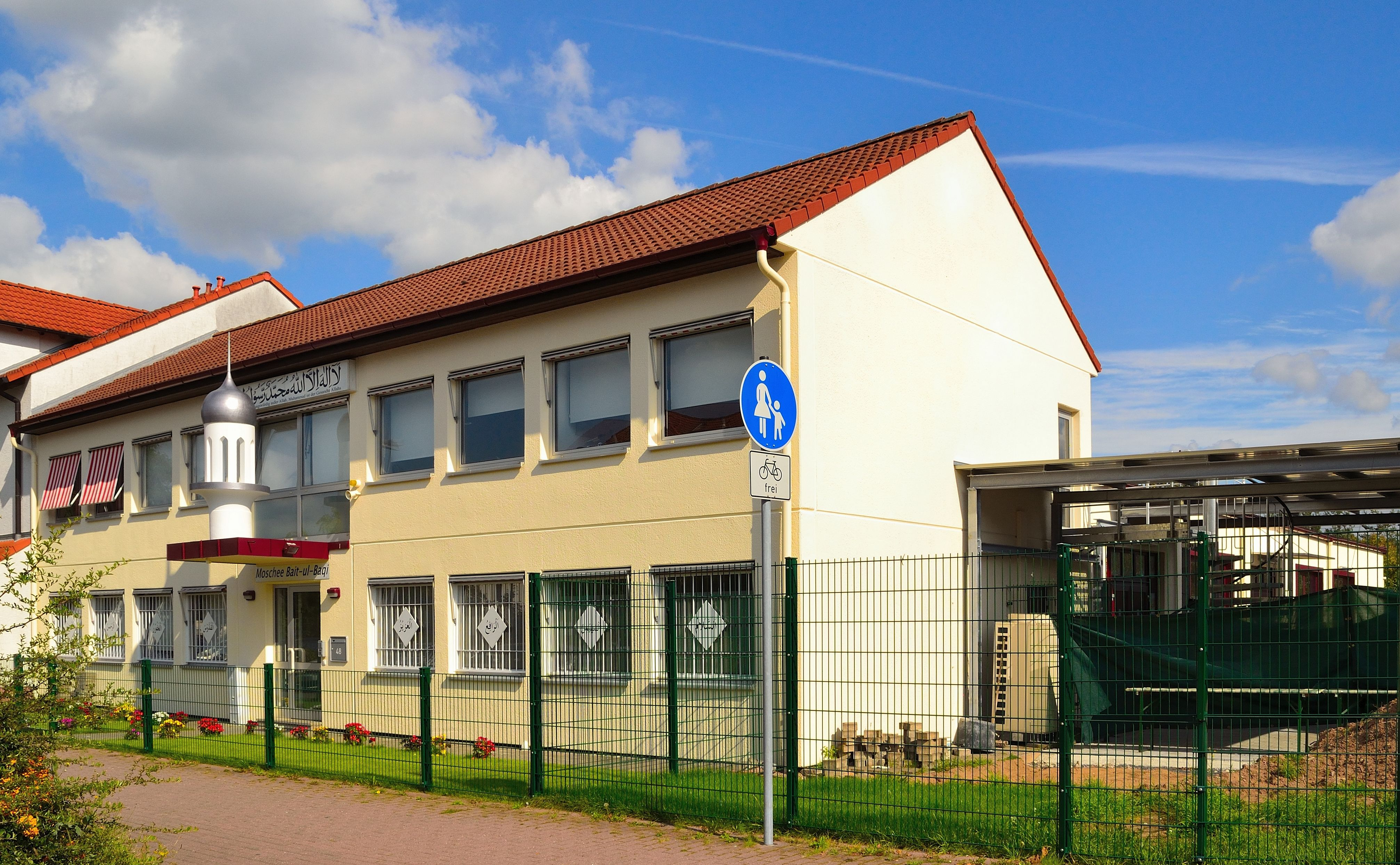 The Bait ul-Baqi Mosque in Dietzenbach build by the Ahmadiyya Muslim Community